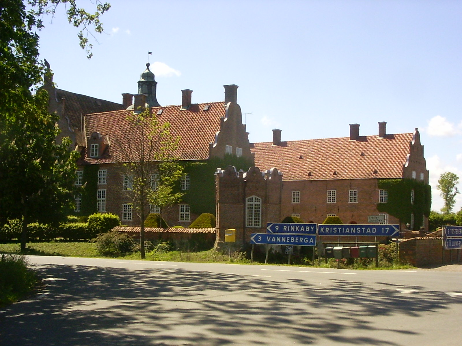 Trolle Ljungby castle